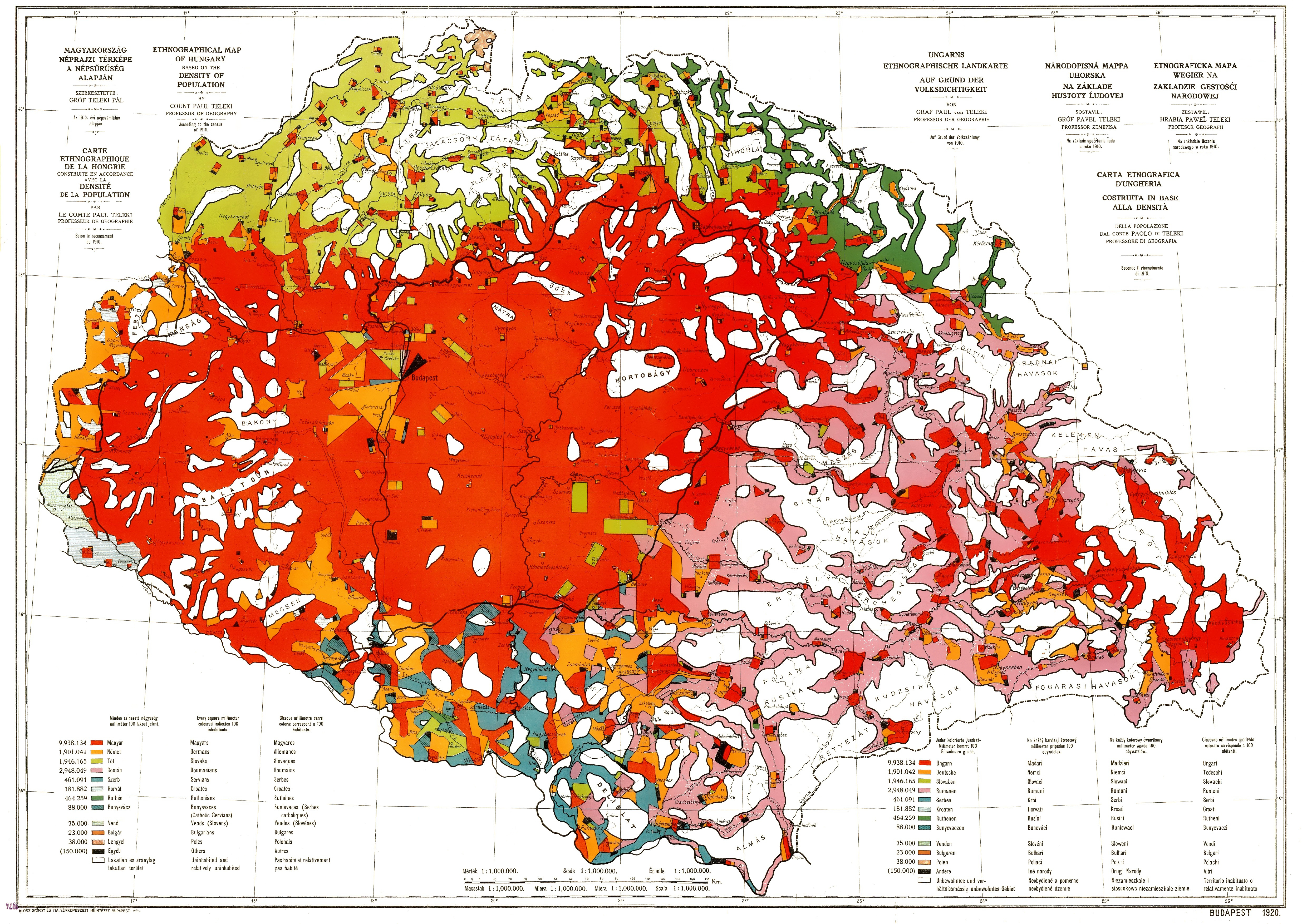 Ethnographic map of Hungary, based on the density of population according to the census of 1910. Original scale 1 : 1 000 000. Every square millimeter colored indicates 100 inhabitants. "Carte Rouge" - "Red map" was made for the peace talk in Trianon.